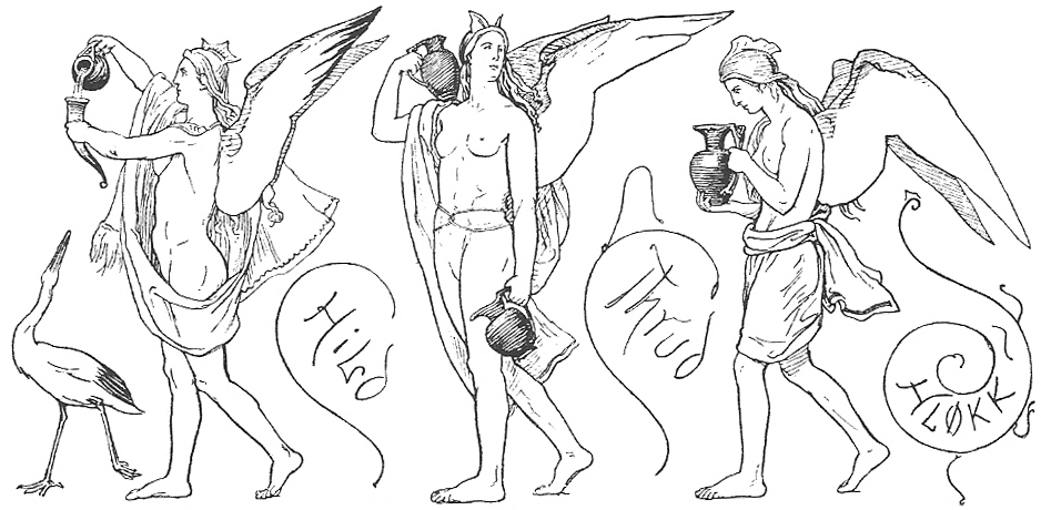 Three ale-bearing valkyries (captioned as "Hild, Thrud and Hløkk") in Valhalla in an illustration for Grímnismál.